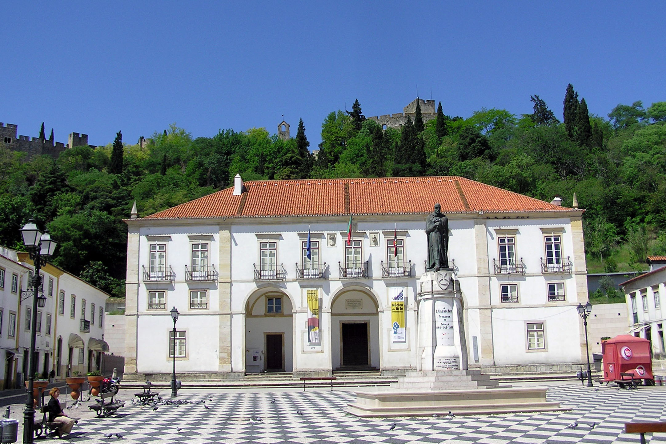 Municipality - Tomar